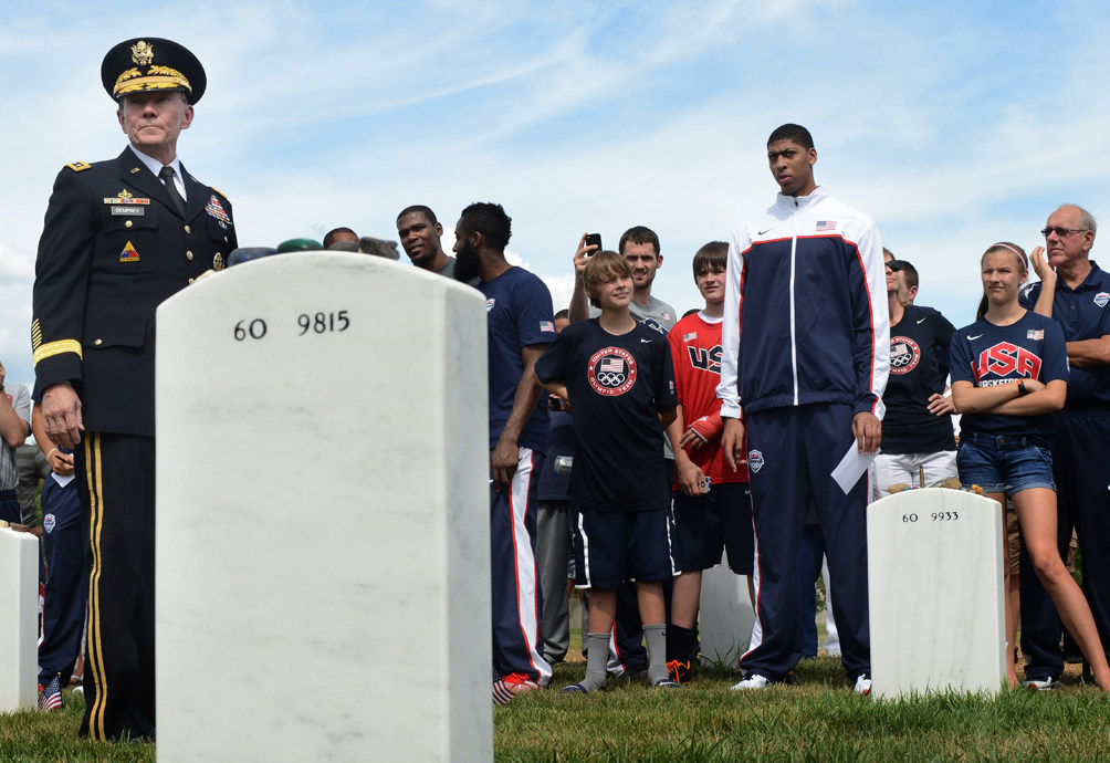 Chairman of the Joint Chiefs of Staff Gen. Martin E. Dempsey tells the US Olympic Men's Basketball team about Arlington National Cemetery and Section 60 on Ft. Myer, Va, Jul. 15, 2012. DOD photo by D. Myles Cullen